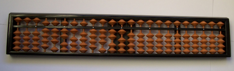 a soroban (japanese abacus) with the number 987654321